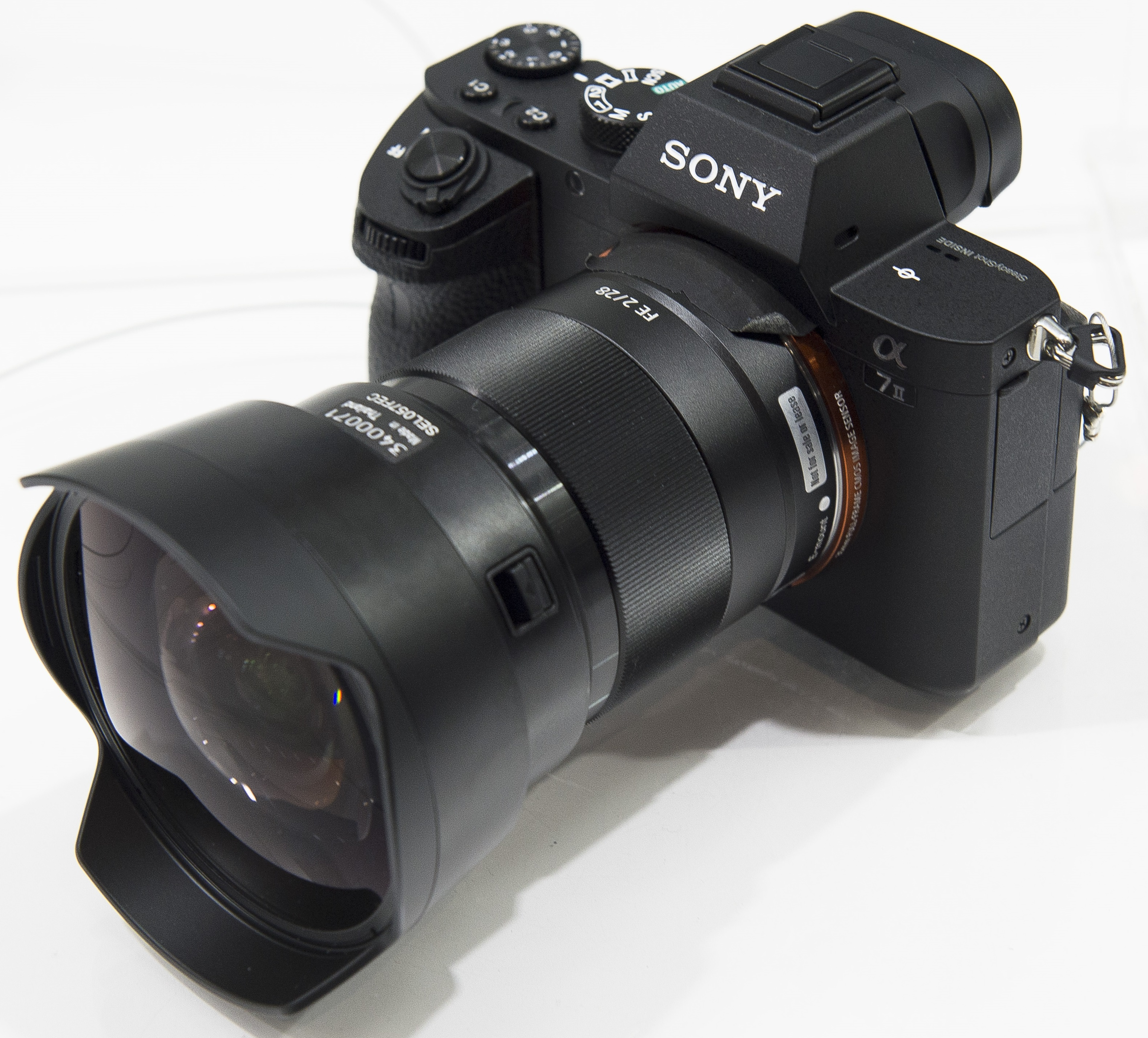 Sony a7 II mirrorless camera with FE 28mm F2 lens and fisheye converter.